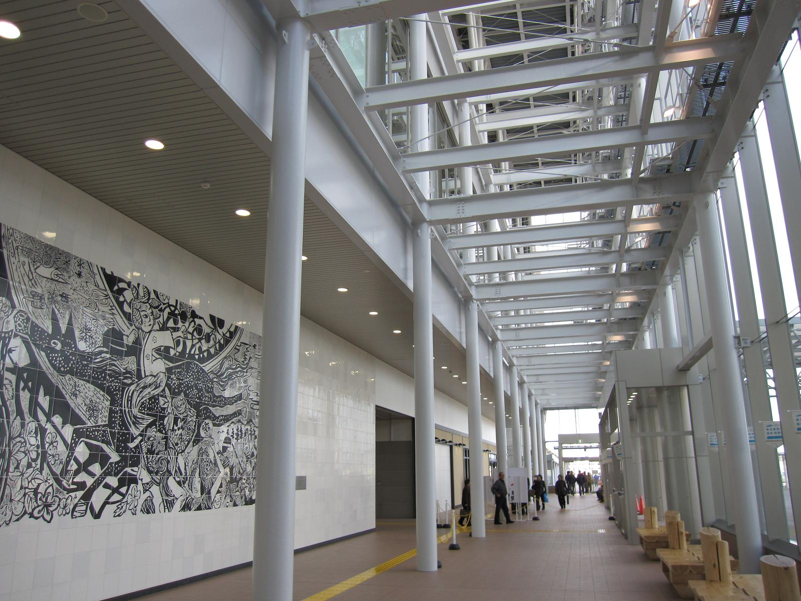 Main entrance at Shin-Aomori statio